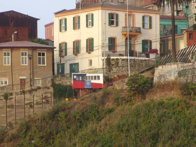 The city is built on steep hills. "Ascensors" were installed as "vertical streetcars". The Ascensor Conception was built in 1883.